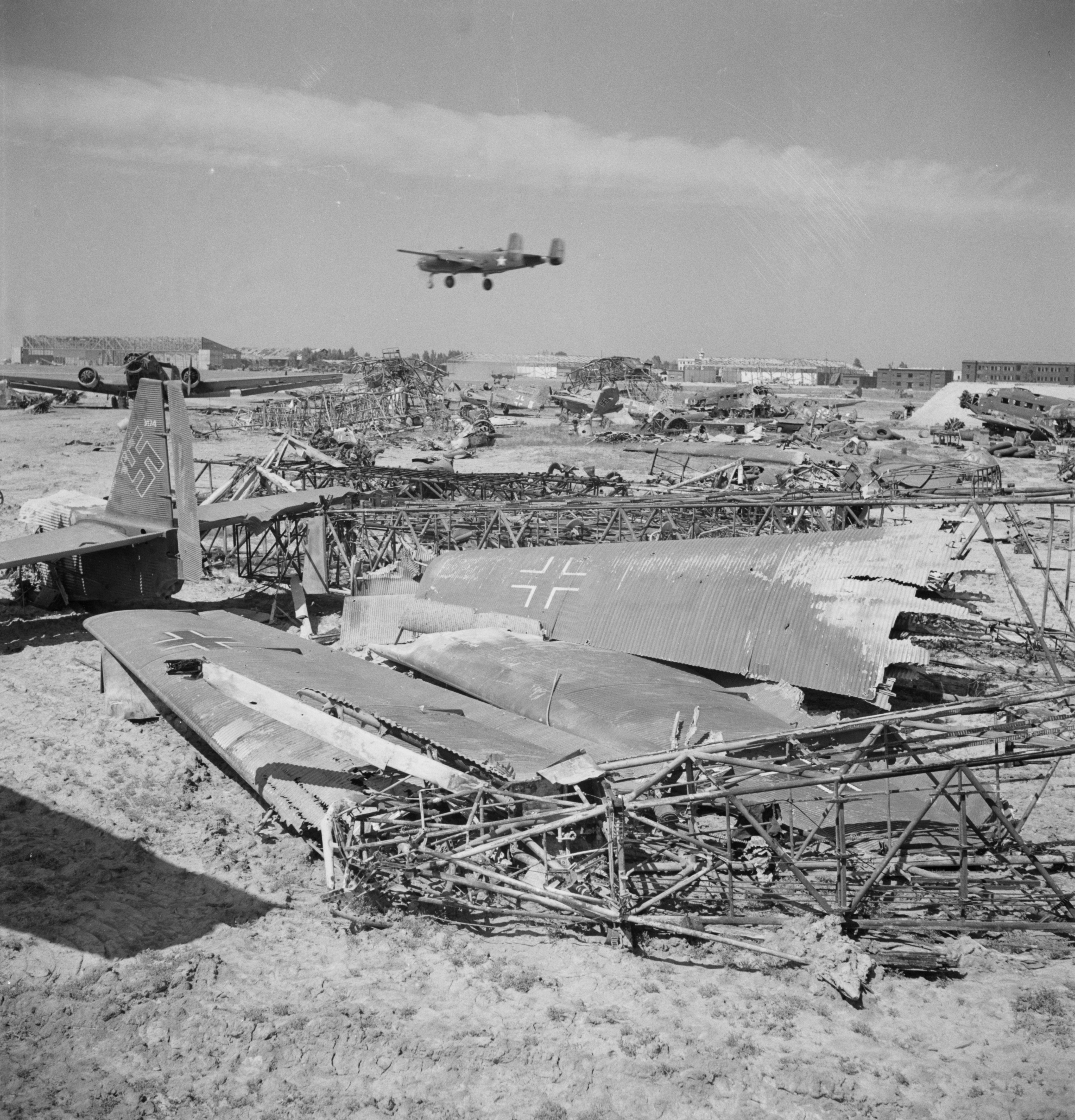 Wrecks of German Junkers Ju 52 transport planes at El Aouiana airport, Tunis, Tunisia, May 1943. Da USAAF North American B-25 Mitchell is landing in the background.